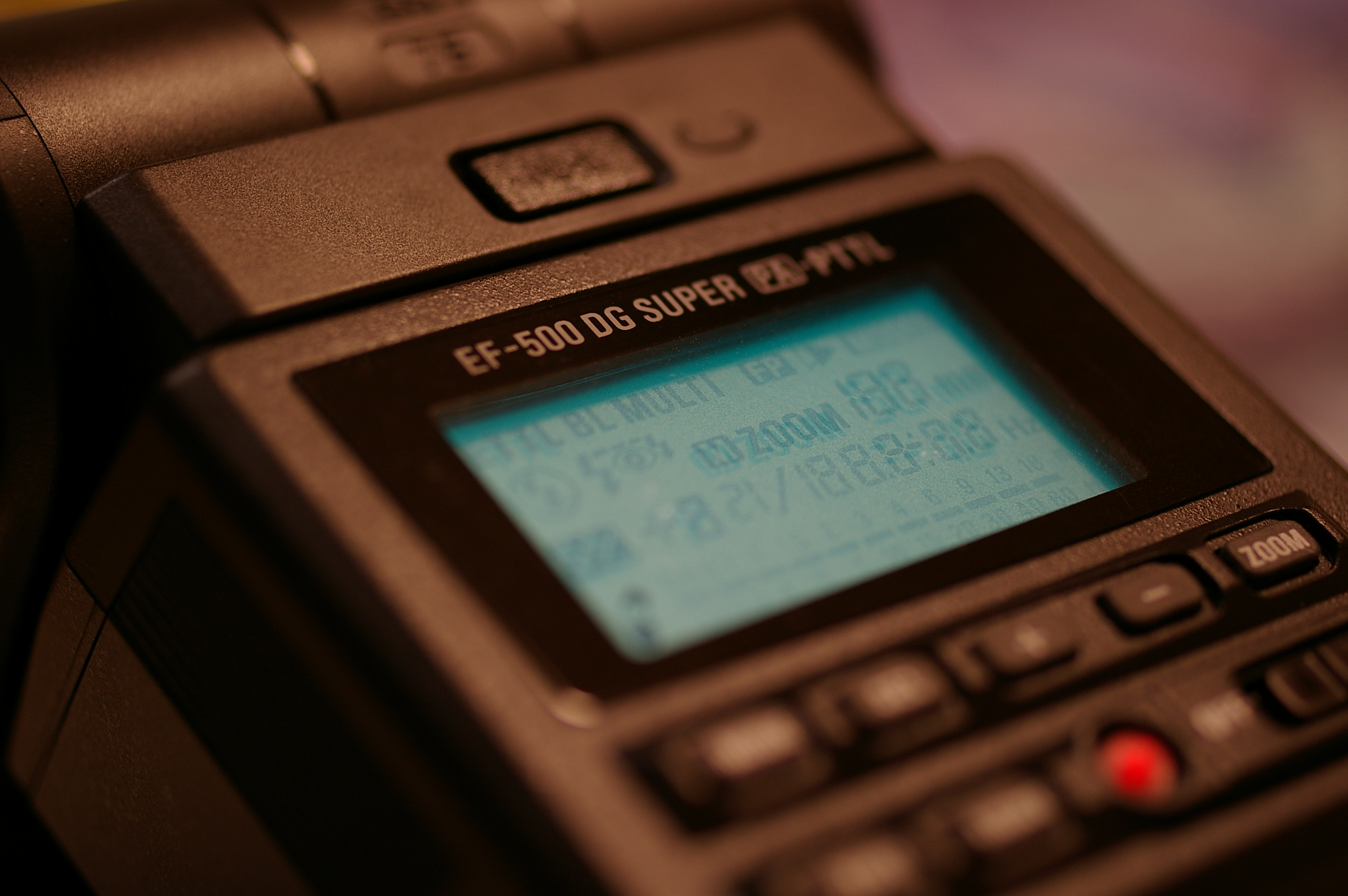 Sigma Electronic Flash EF-500 DG Super